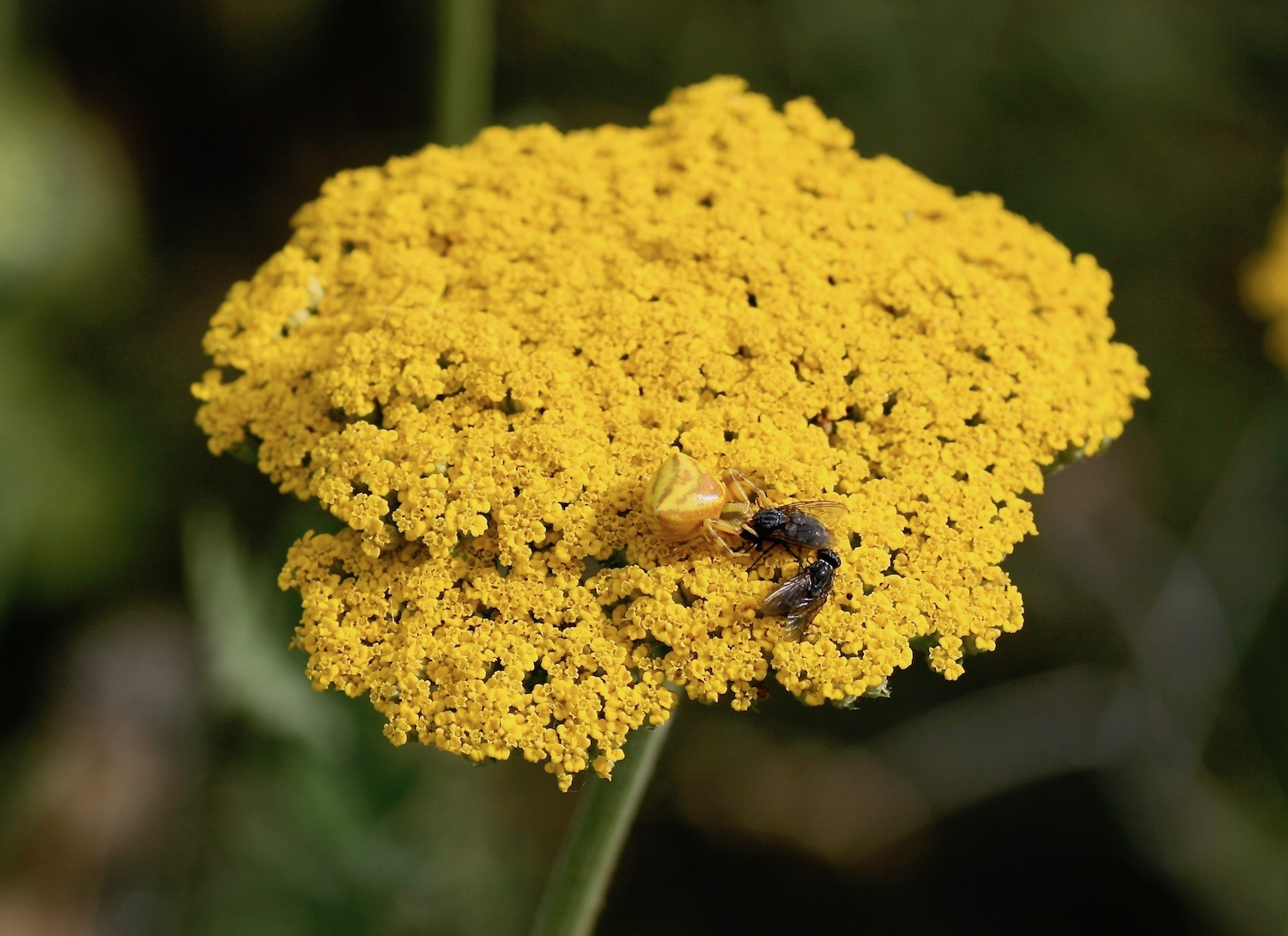 Achillea filipendulina and crab-spider Thomisus onustus feeding on a fly. Kyrgyzstan, Turkestan Range, Dinau village in vicinity of Sarkat river, 1700 m.